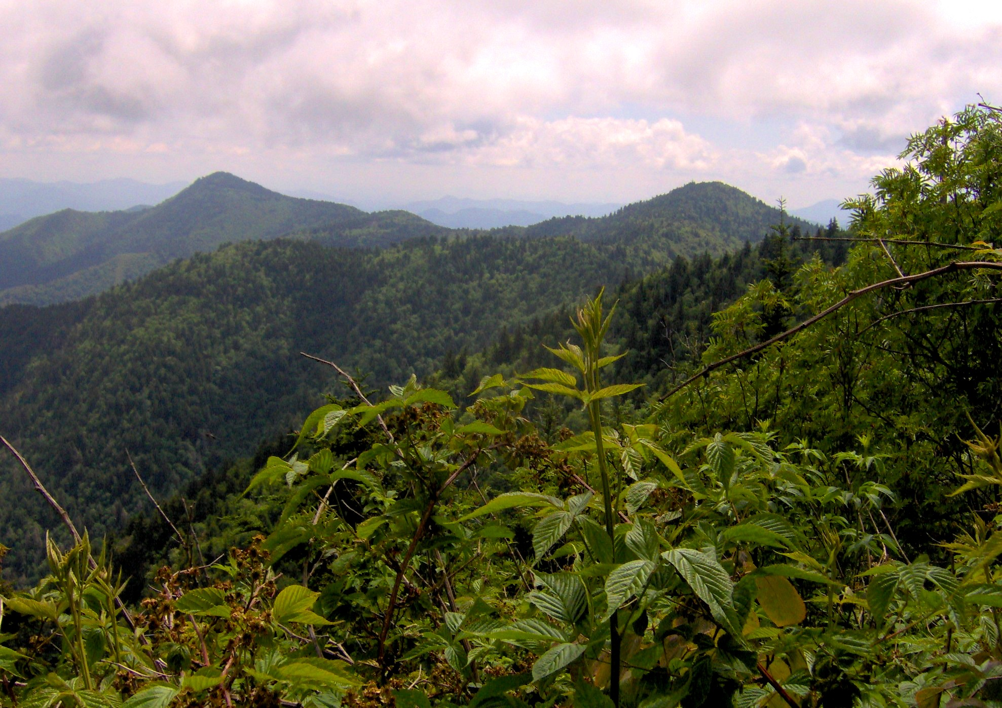 Plott Balsam Mountain (left) and Mount Lyn Lowry (right) in the Plott Balsam Range of western North Carolina, in the southeastern United States. This view is from the Waterrock Knob Trail, just off the summit of Waterrock Knob.